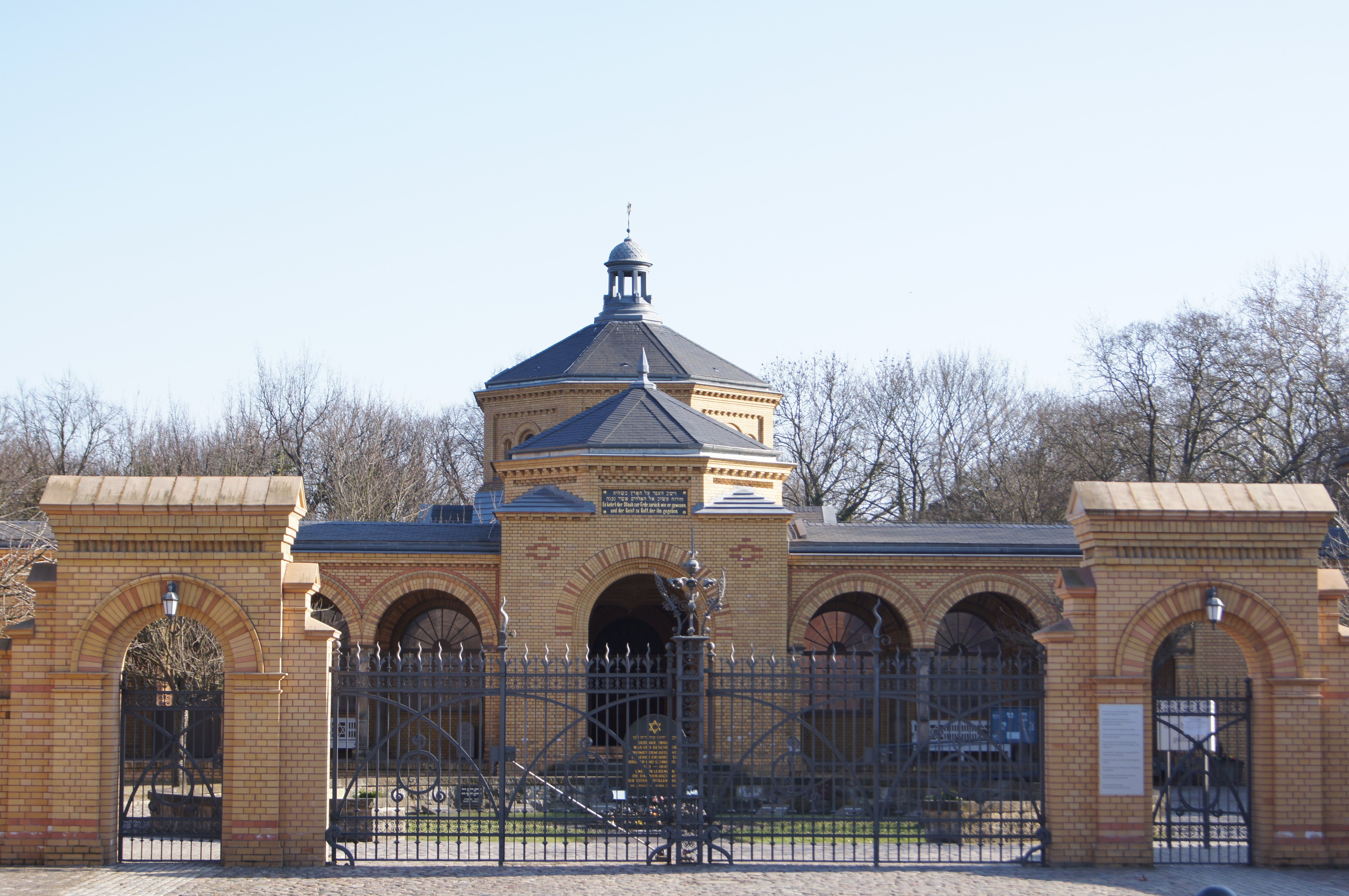 Entrance buildings of the cemetry of the jewish community in Berlin-Weissensee, Germany